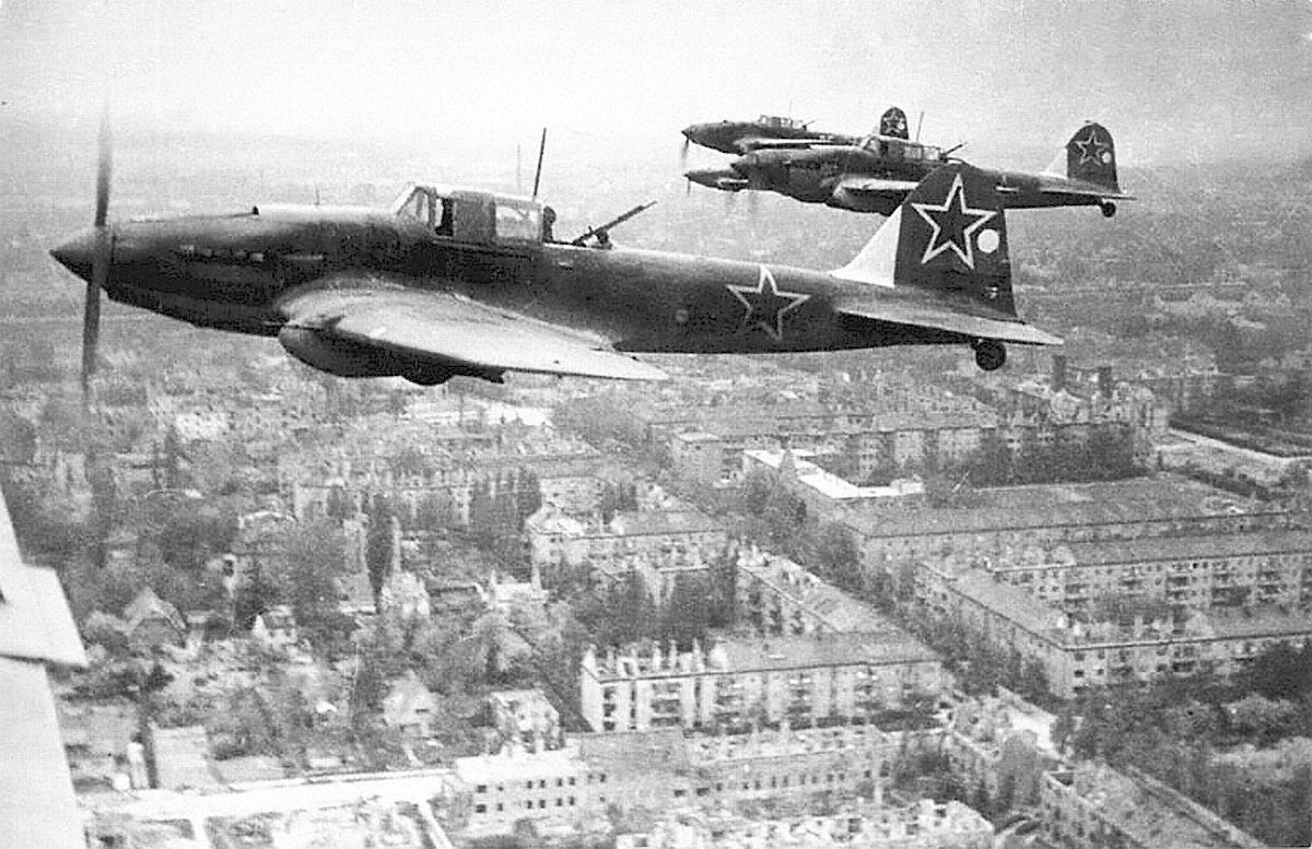 IL-2 planes over Berlin in may 1945